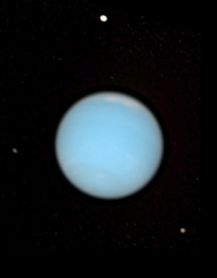 Neptune, natural color view, with Proteus (top), Larissa (lower right) and Despina (left), from Hubble space telescope.